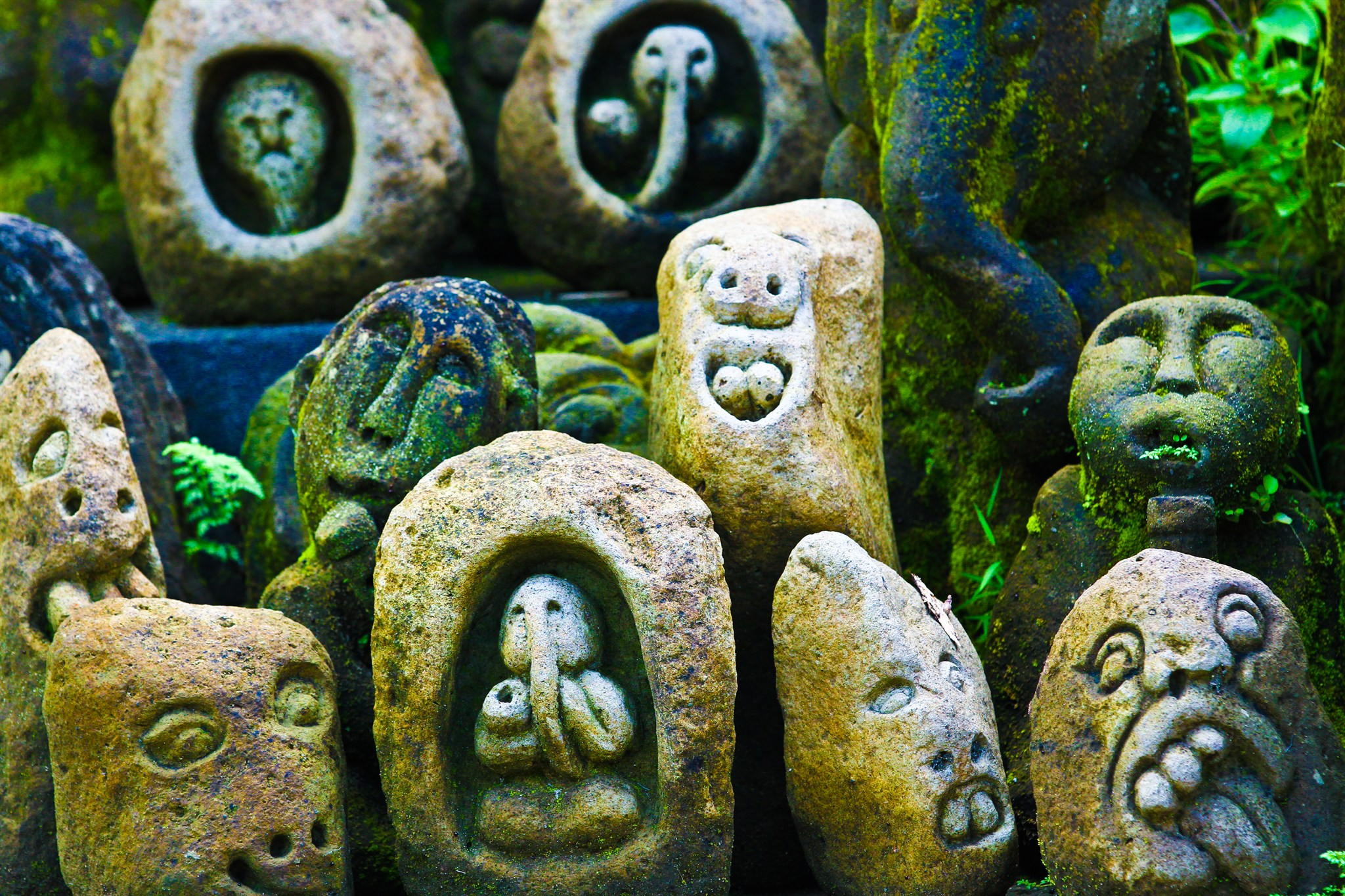 Balinese stone carvings found in Ubud.